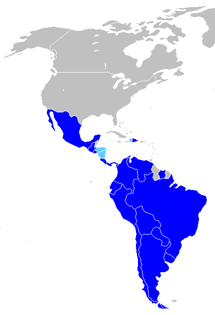 Map of ratifications for Inter-American Convention to Prevent and Punish Torture; blue for ratificaton, light blue for signed but not ratified